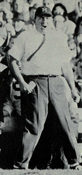 Photograph of Tony Mason from the 1965 Michianensian. Caption reads: "Ex-Ohioan Tony Mason outdoes shirtsleeved Woody Hayes in the 19-degree Columbus weather."